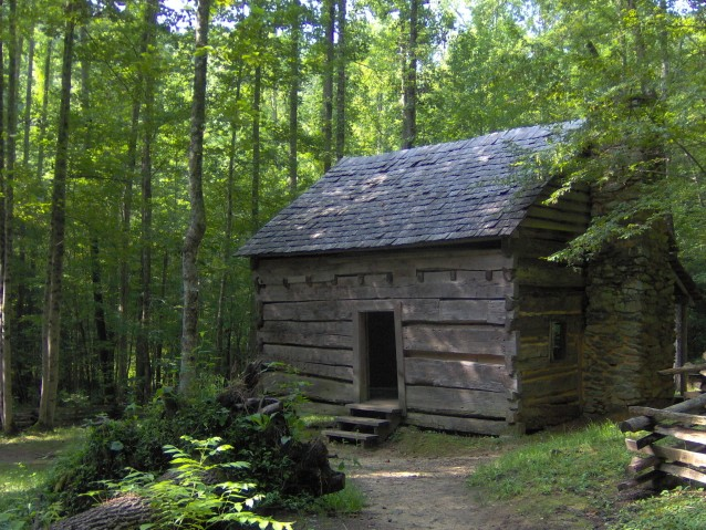 The John Ownby Cabin in the Sugarlands, GSMNP, in East Tennessee. This cabin is located along the short interpretive trail behind the Sugarlands Visitor Center.